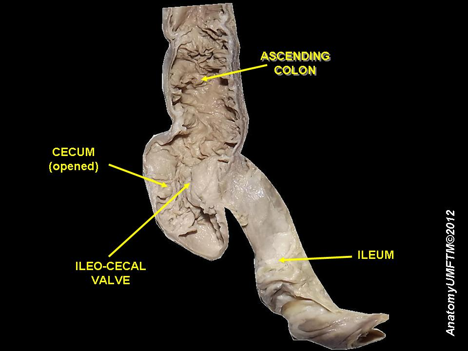 Dissection